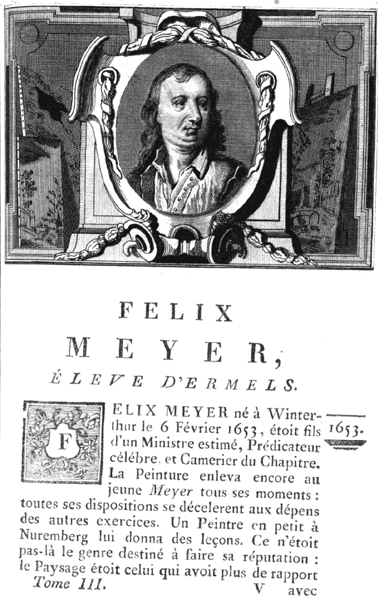 Book 3 of 4-volume painter biographies by Jean-Baptiste Descamps